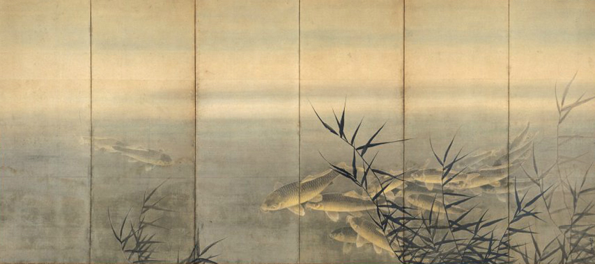 Shoal of Swimming Carp, Tottori Prefectural Museum, Tottori, Tottori, Japan